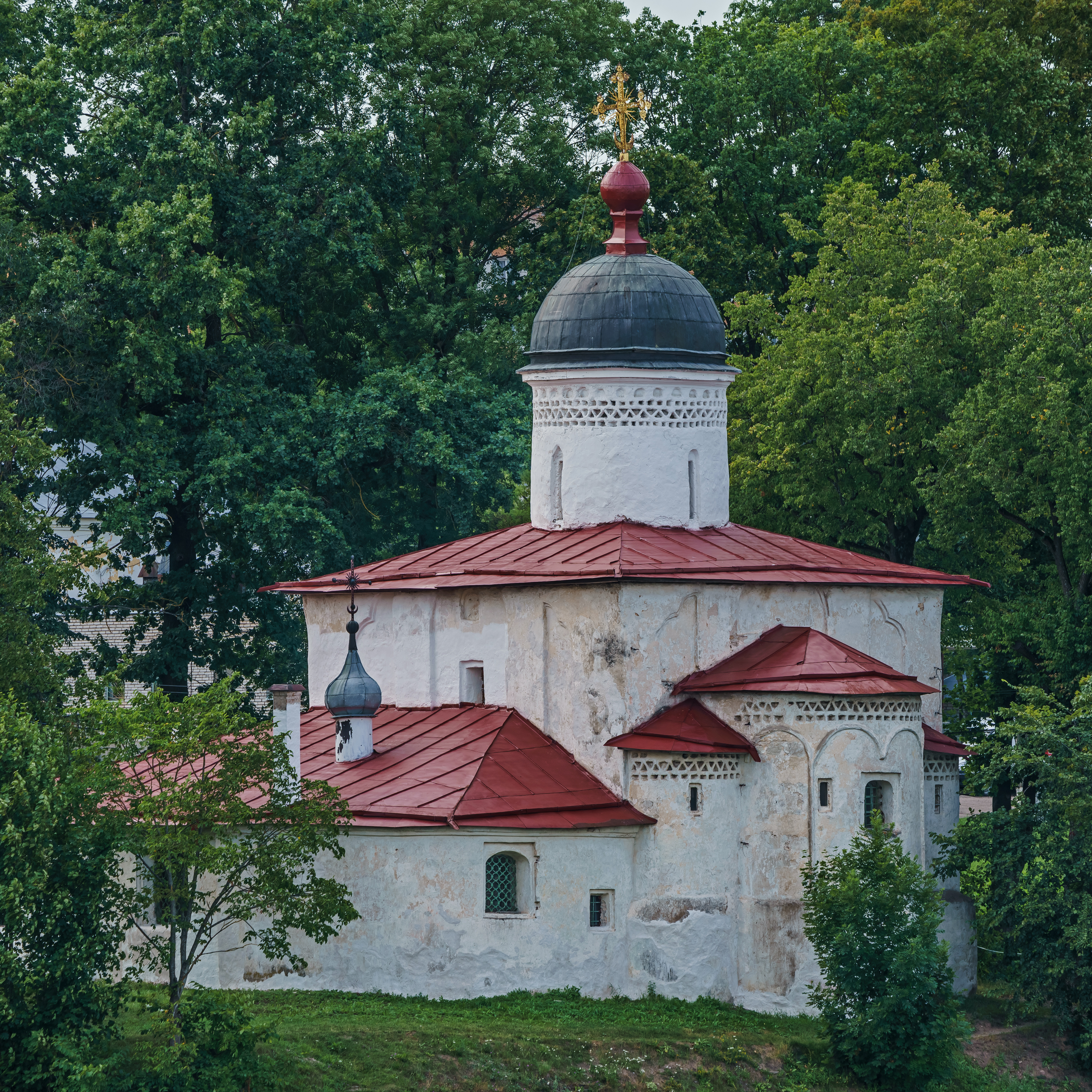 Church of St. Clement, the Pope of Rome, in Pskov, Russia